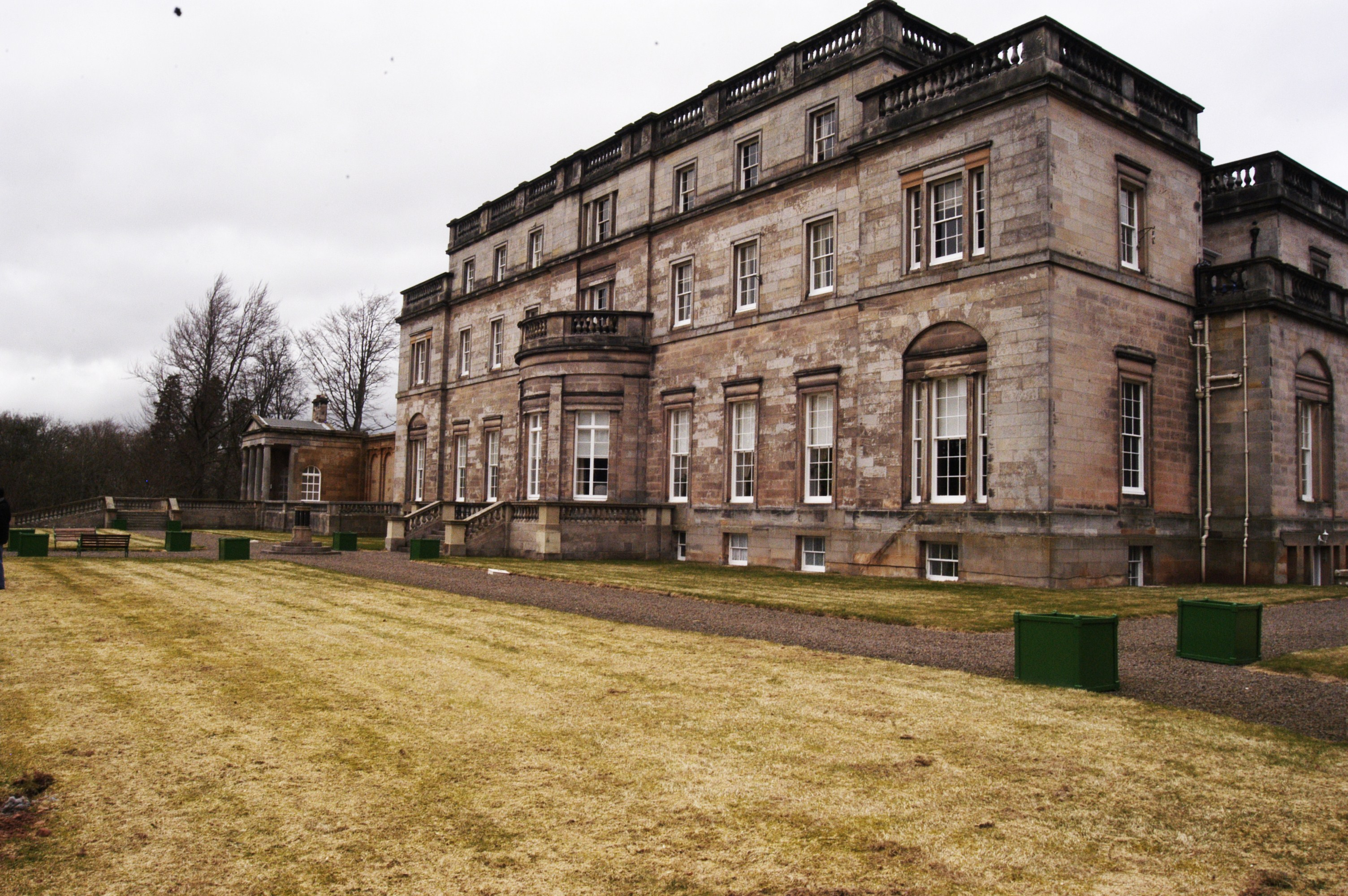 Lord Balfour's childhood home. East Lothian, Scotland.